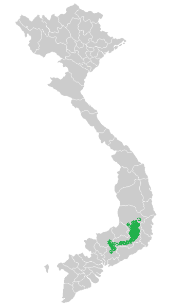 Location Vietnam ma people